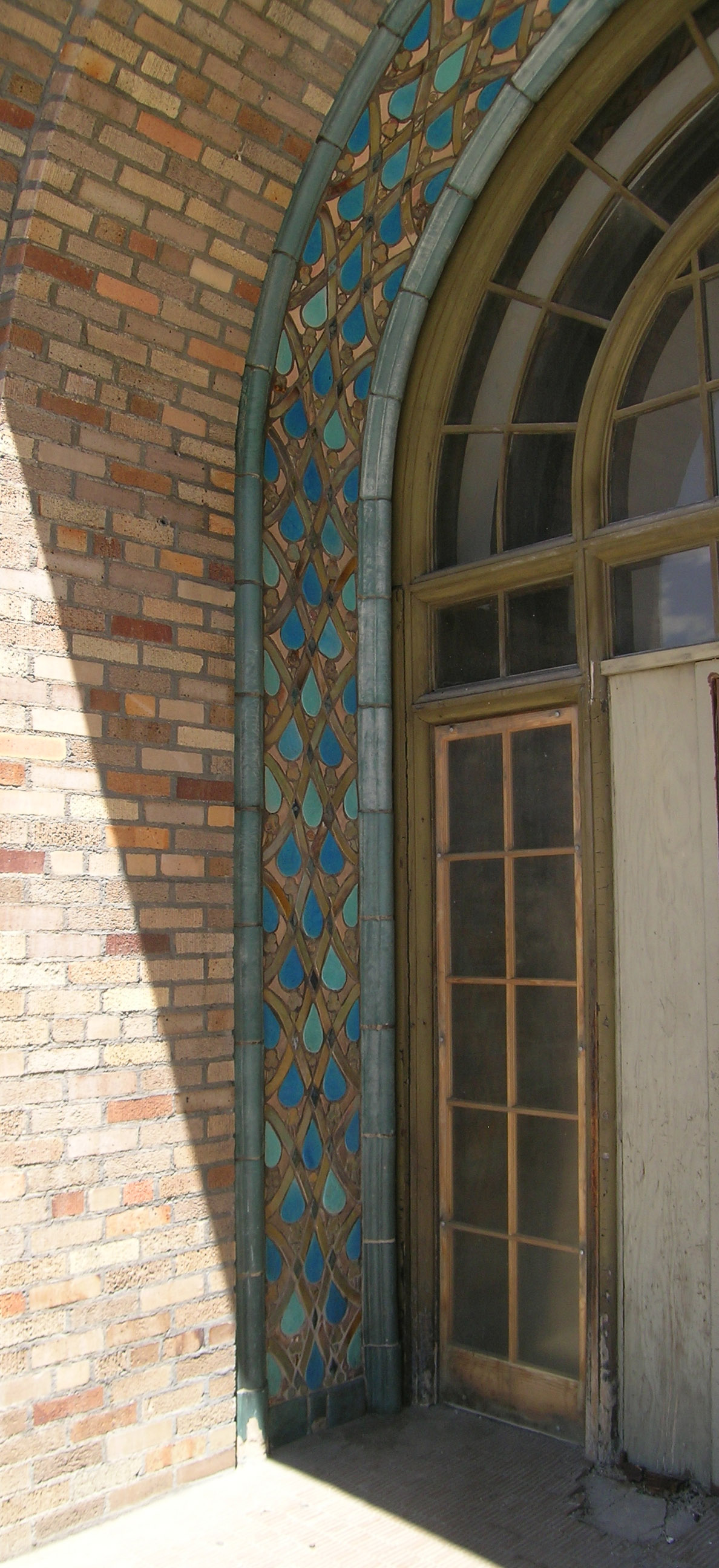 Tilework around front door of Women's City Club — on Park Avenue near Grand Circus Park, in Midtown Detroit, Michigan. Built in 1922, a Category:Michigan State Historic Site, a Historic district contributing property to the Park Avenue Historic District, and on the National Register of Historic Places.